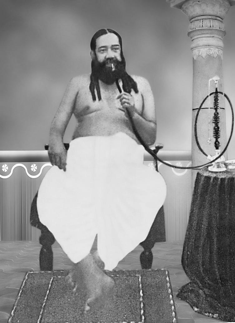 Swami Nigamananda (Nilachala Saraswata Sangha, Puri) India